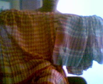 own work, a pair of gamchhas from my bathroom